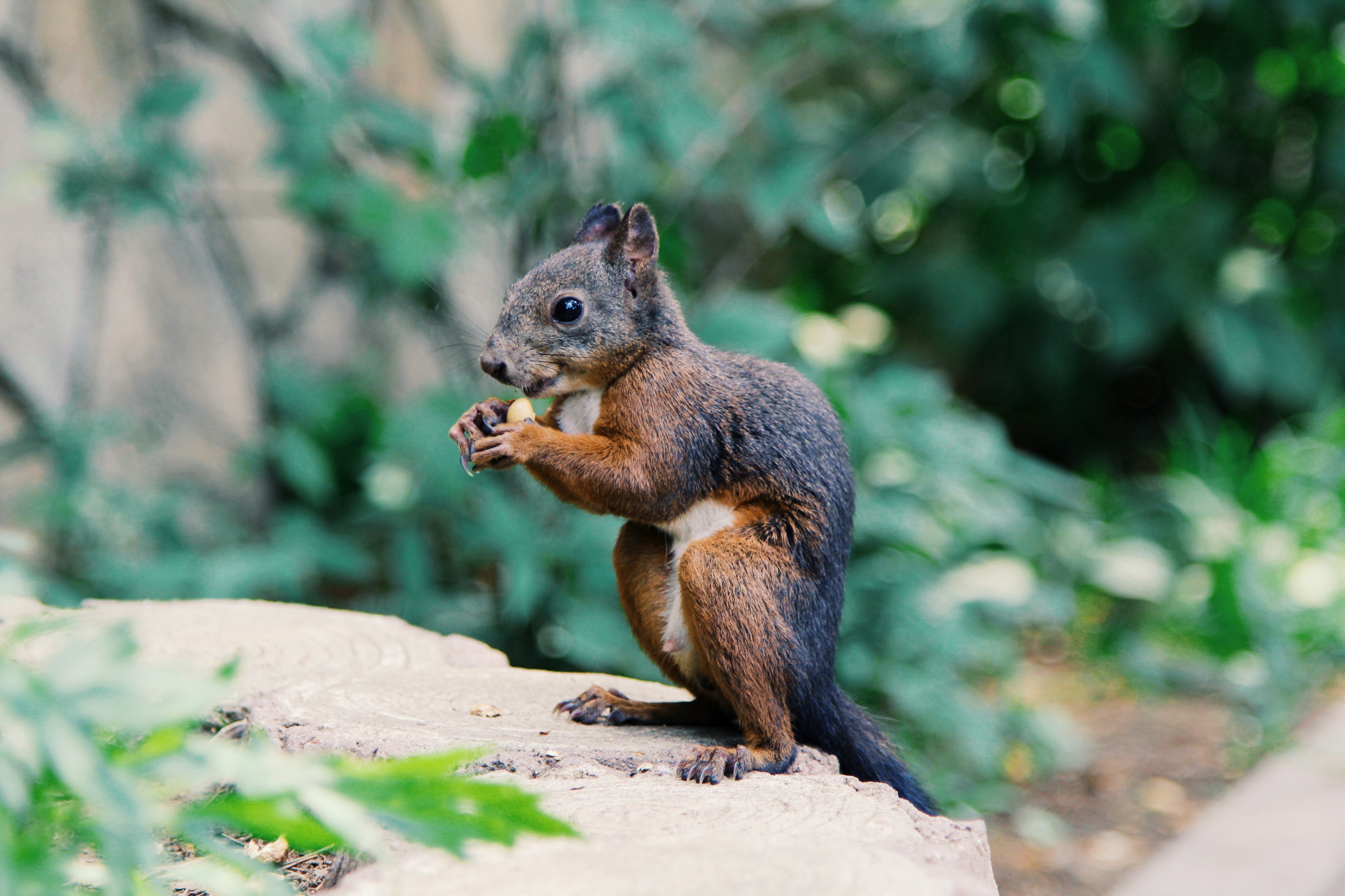 Leo Nard 2017-05-06